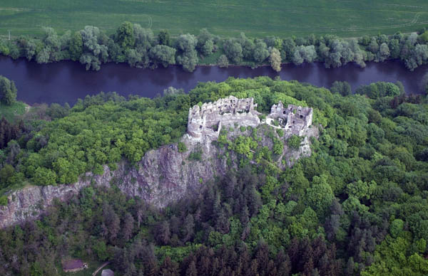 Šášov Castle, Slovakia, aerial photography